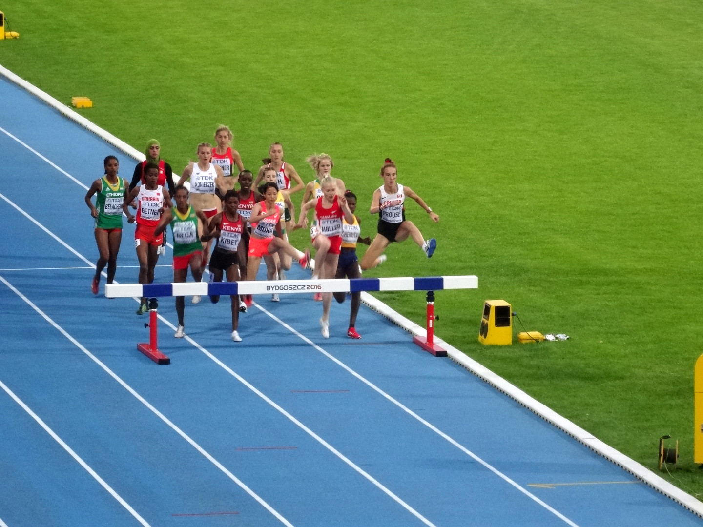 2016 IAAF World U20 Championships in Bydgoszcz, 3000m steeplechase women final